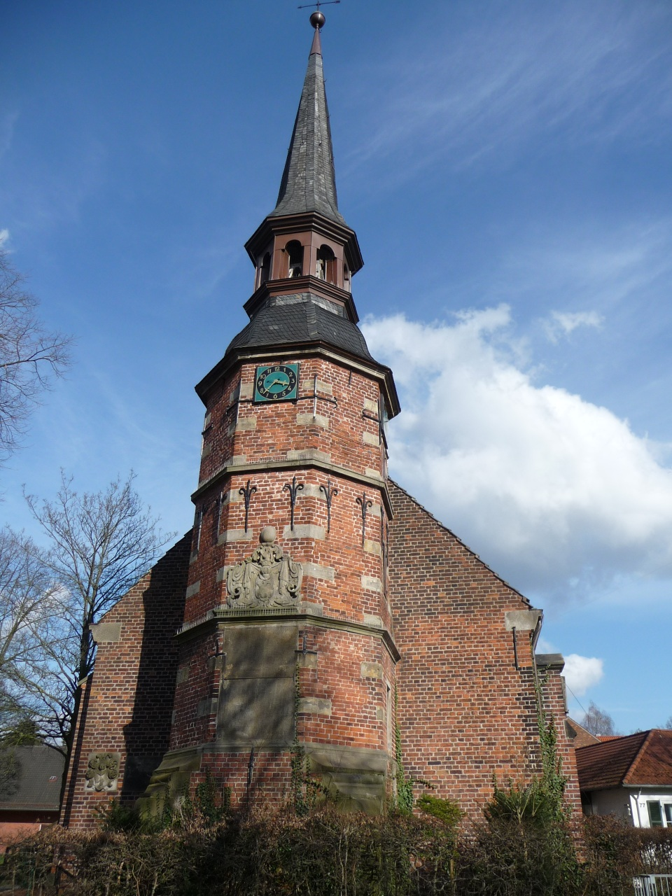 evang. church in Bremen-Walle